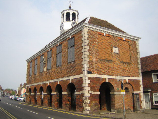 Amersham Old Town: The Market Hall The Market Hall was built in 1682 and restored in 1911. It dominates the centre of Amersham Old Town at the east end of the High Street. The market was held at ground floor level and guild meetings in the room above. Behind the bricked up arch to the right was the town lock-up, and the old town pump is visible to the right of that arch.